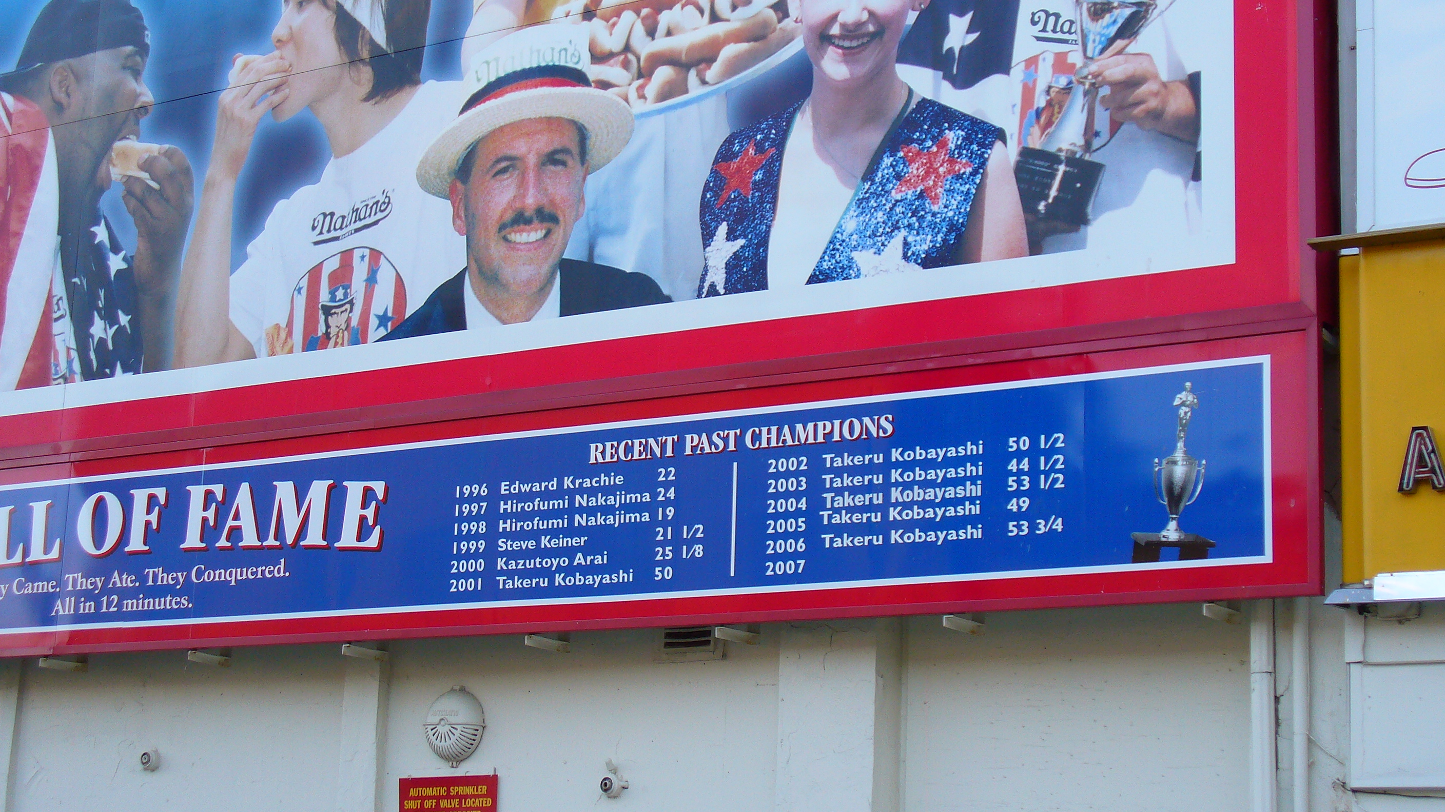 Takeru Kobayashi on Nathan's Wall of Fame by David Shankbone